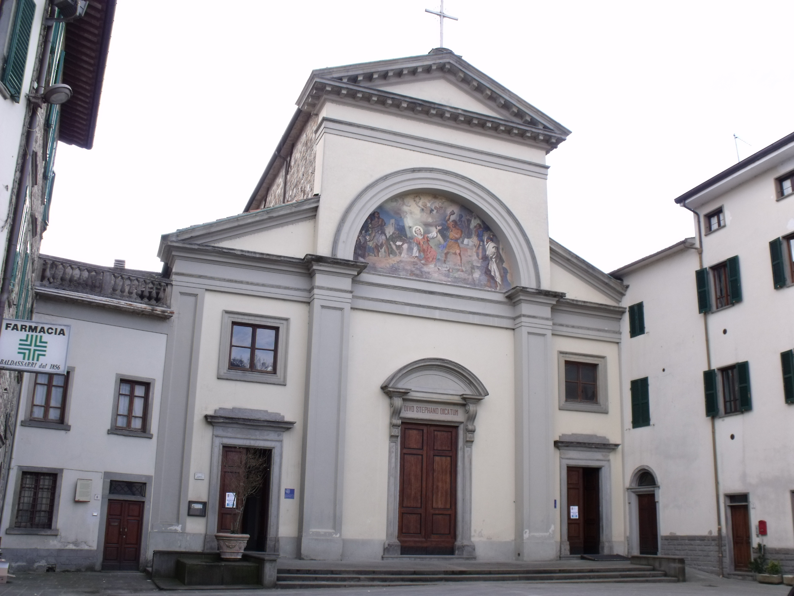 Collegiata di Santo Stefano in Pieve Santo Stefano, Province Arezzo, Tuscany, Italy